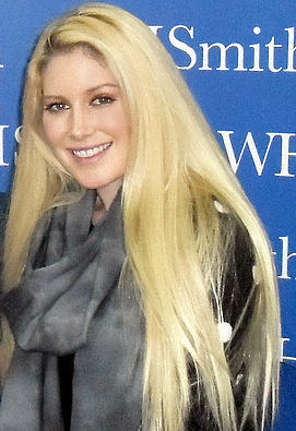 Heidi Montag signS copies of OK! Magazine at Brent Cross Shopping Centre on February 2, 2013 in London, England.